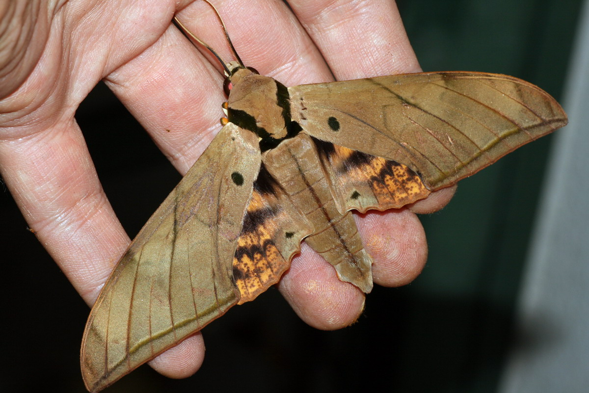 Malaysia, Fraser's Hill March 2009